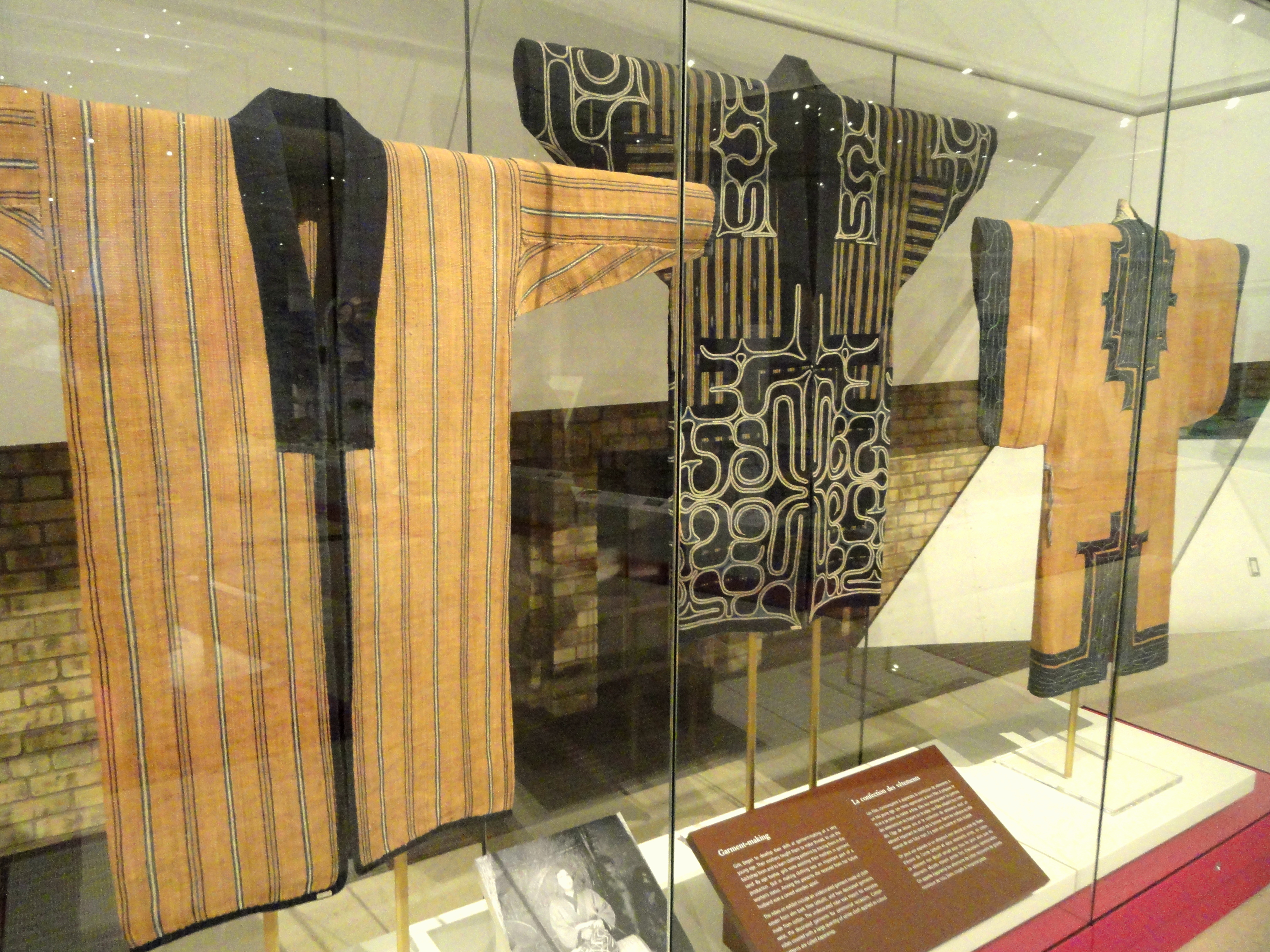 Exhibit in the Royal Ontario Museum, Toronto, Ontario, Canada. This exhibit is old enough so that it is in the public domain, and photography was permitted in the museum. I took this photograph and release it into the public domain.